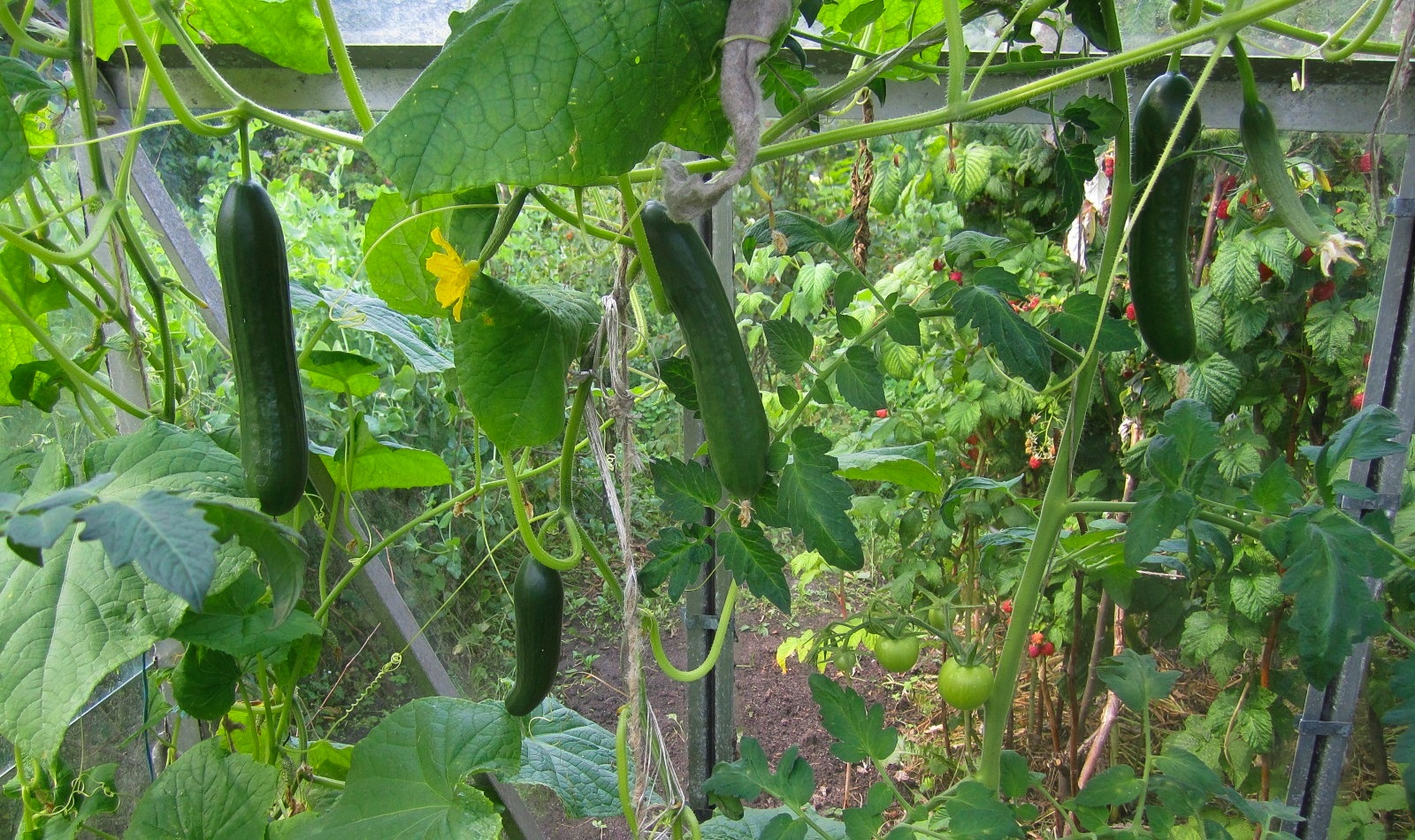 Cucumber ’Passandra F1’ in greenhouse of Estonian home garden. (Viimsi Parish, Harju County)